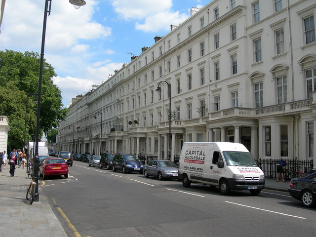 Stanhope Gardens SW7.